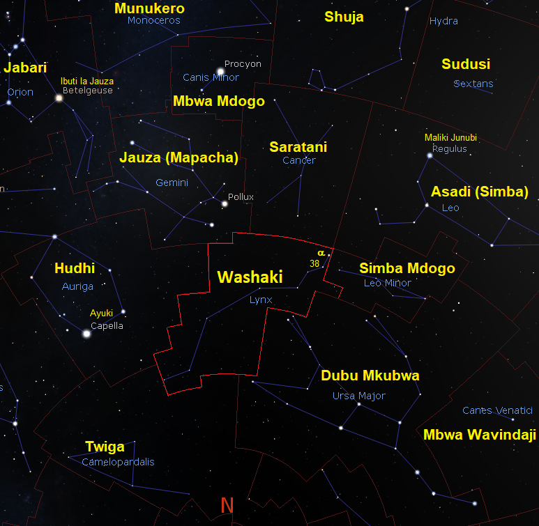 Constellation Lynx as seen from Tanzania, Swahili labelled